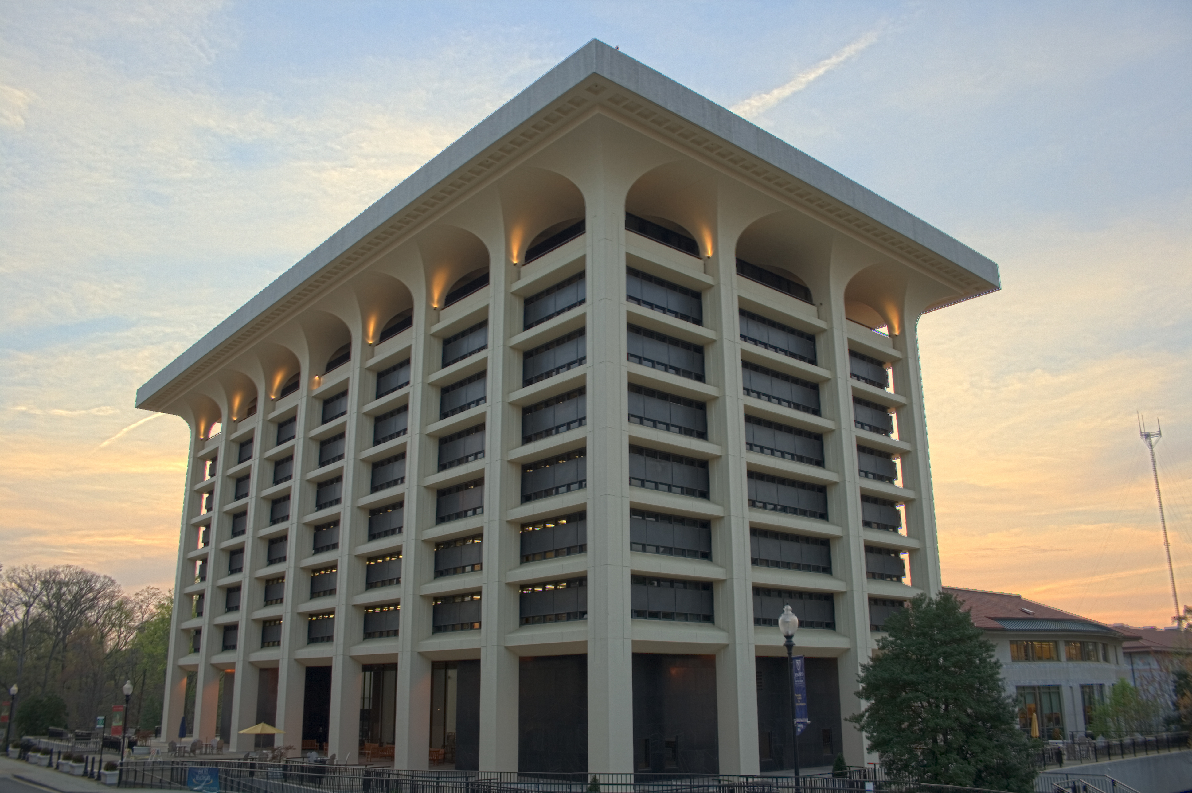 Woodruff Library, Emory University, Atlanta, Georgia, United States.